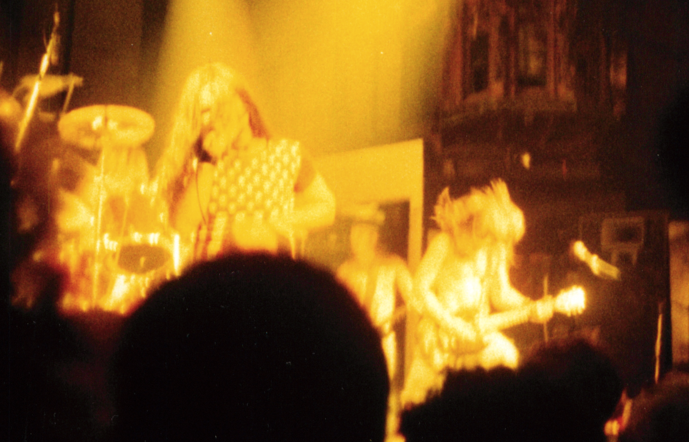 COC on the Blind tour